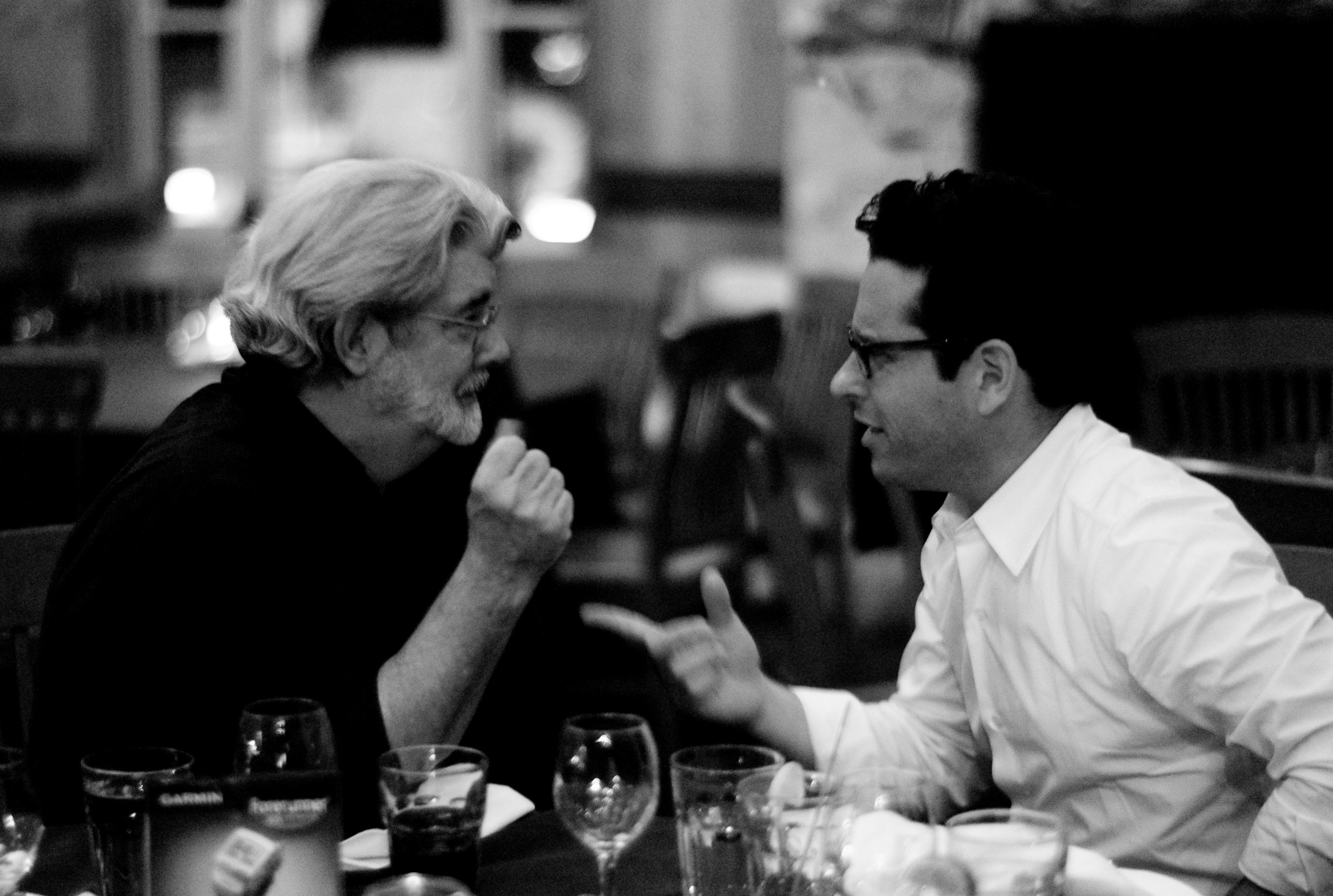 George Lucas and J. J. Abrams